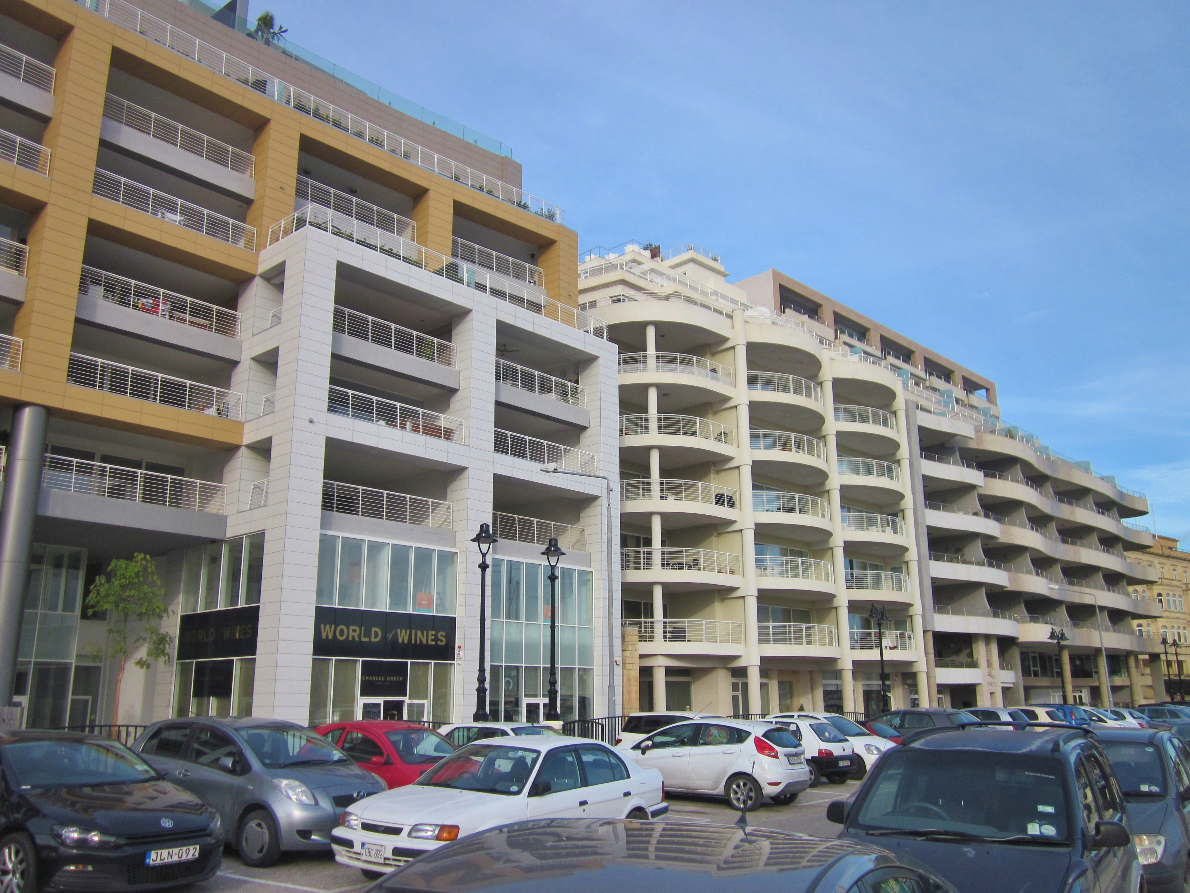 Unidentified location in Malta, NOT the Ta' Xbiex seafront!!!